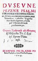 Grgur Mekinić: Dusevne Peszne (Ghostly Hmyn) burgenland croatian protestant hymn-book. Printed in Keresztúr, Hungary (now Deutschkreutz, Austria) Farkas Imre, 1609.